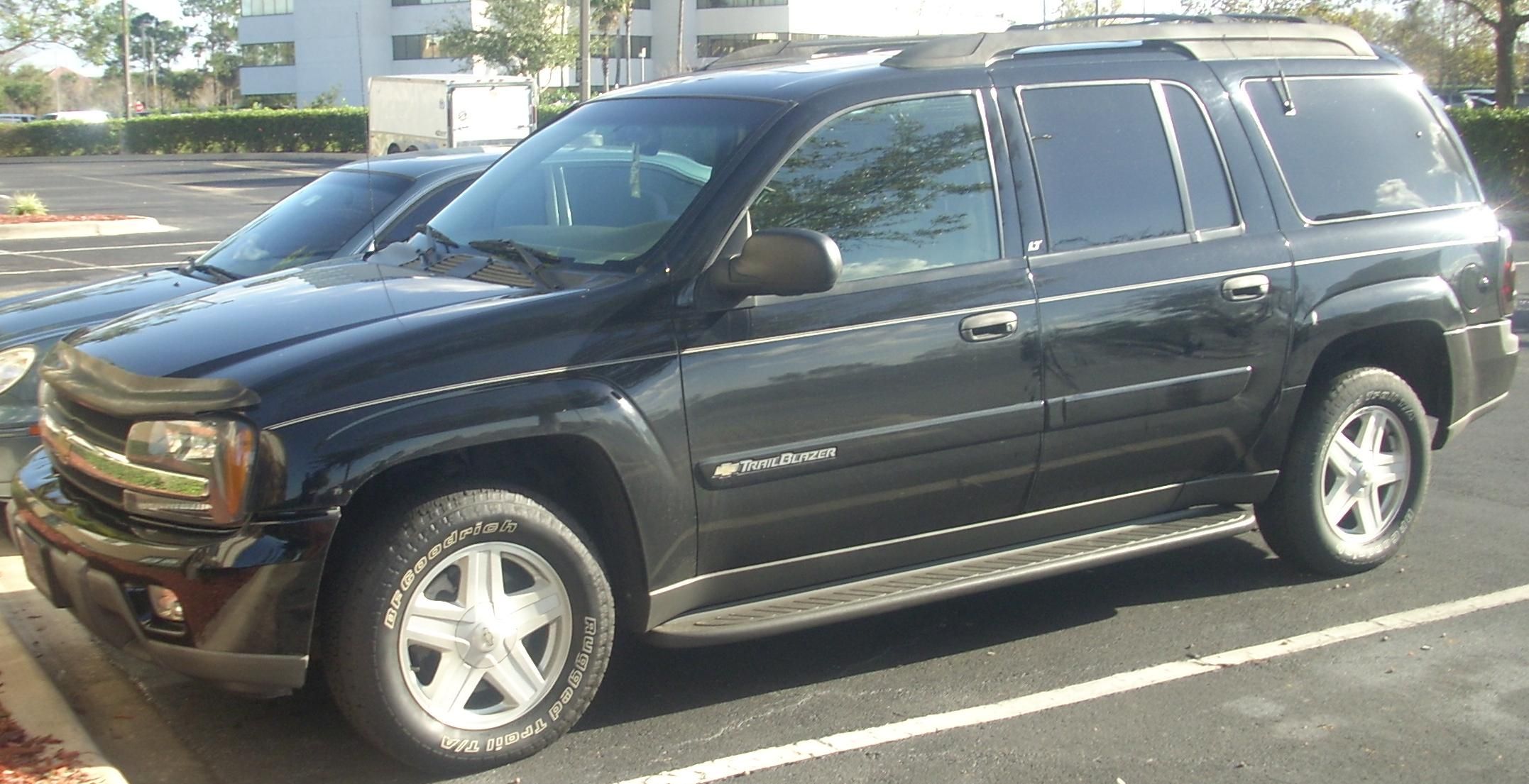 2003-2004 Chevrolet TrailBlazer EXT photographed in Orlando, Florida, USA.